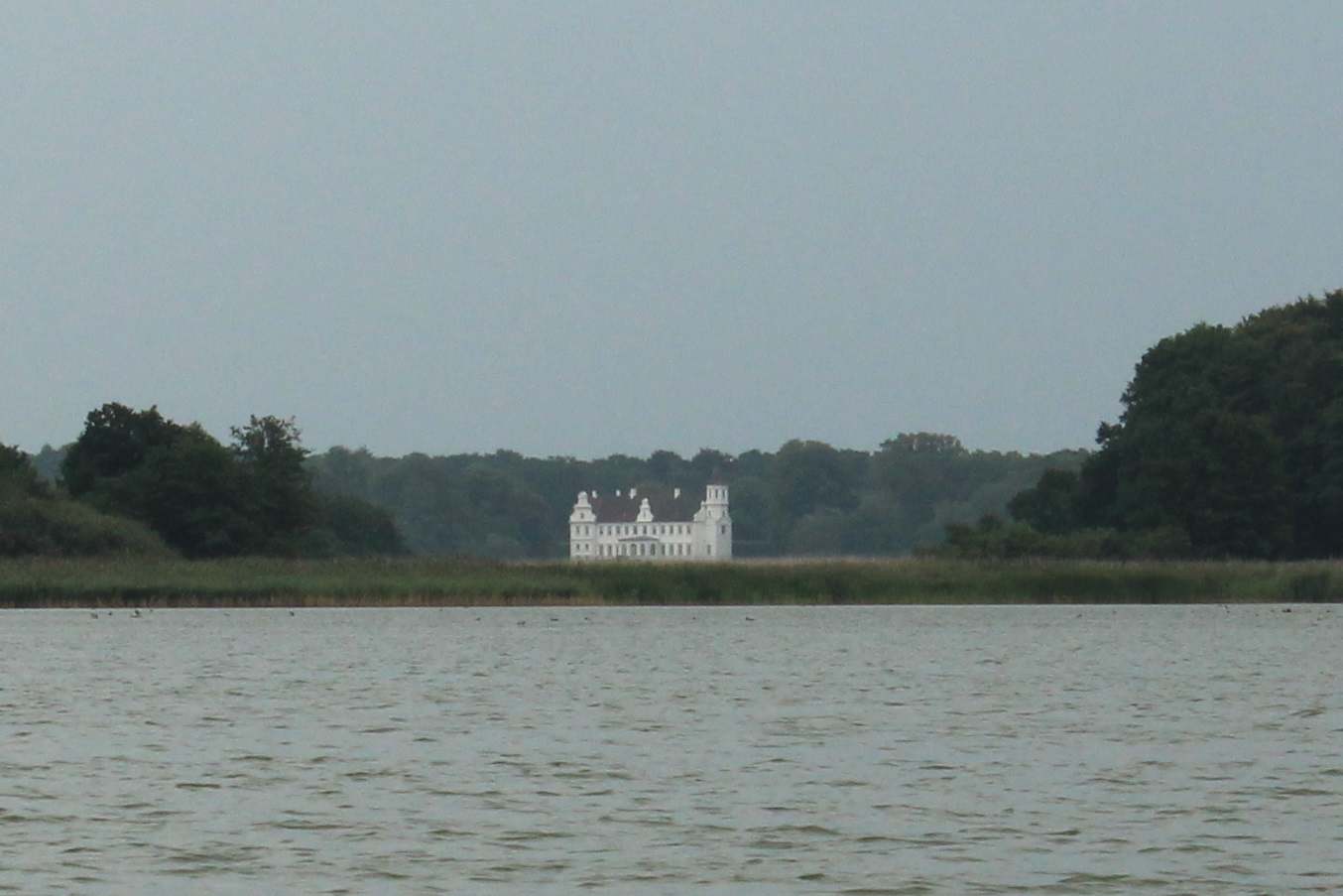 The mansion Søholt seen from Maribo Søndersø.